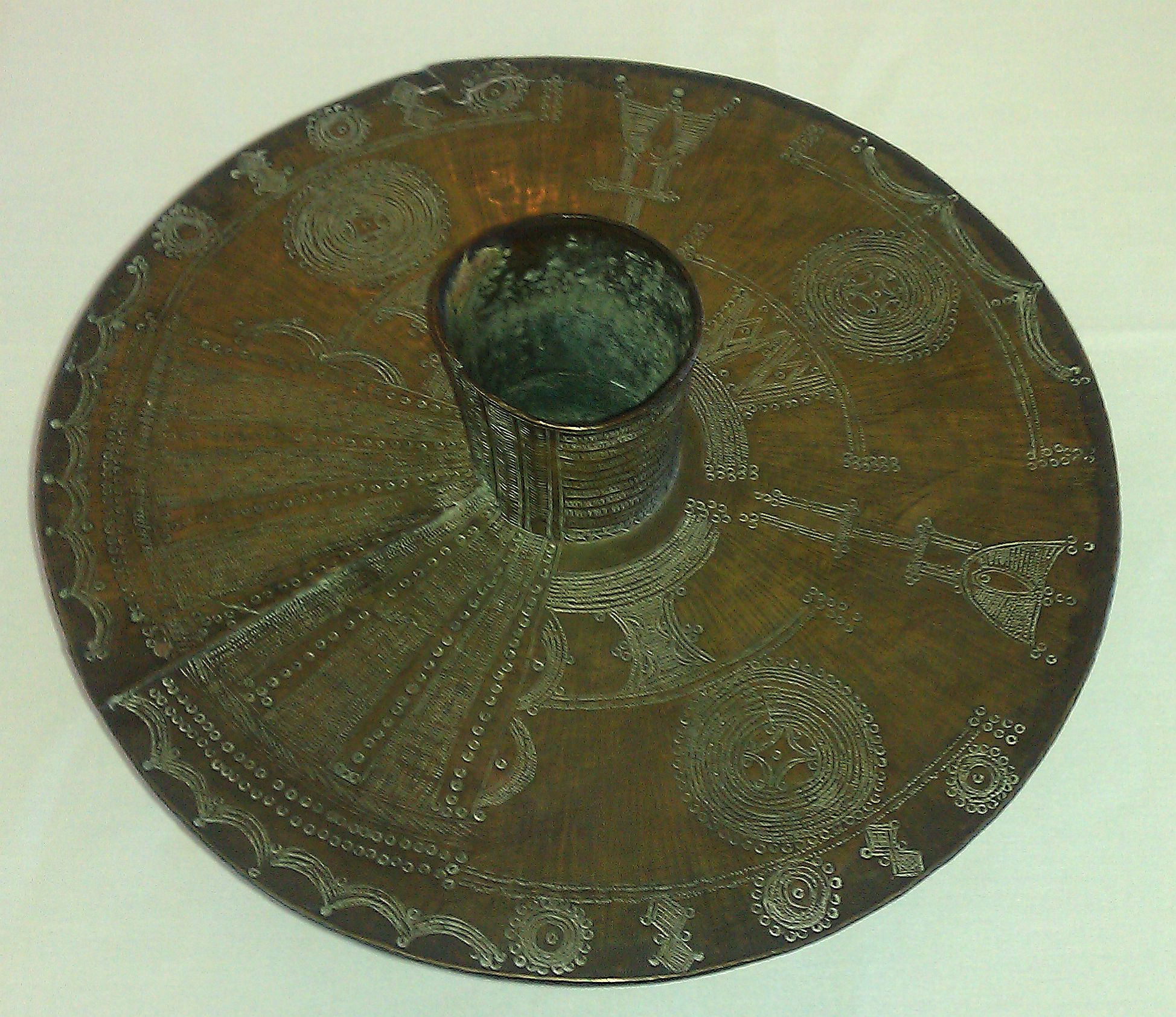 Anklet beaten from a solid brass bar of the type worn by Igbo women in Nigeria. Diameter approx 35cm. Donated in 1922 by Mrs J Laurie to Wolverhampton Art Gallery, from whose catalogue this description is sourced. The leg-tube extends approx 7cm each side of the disc.